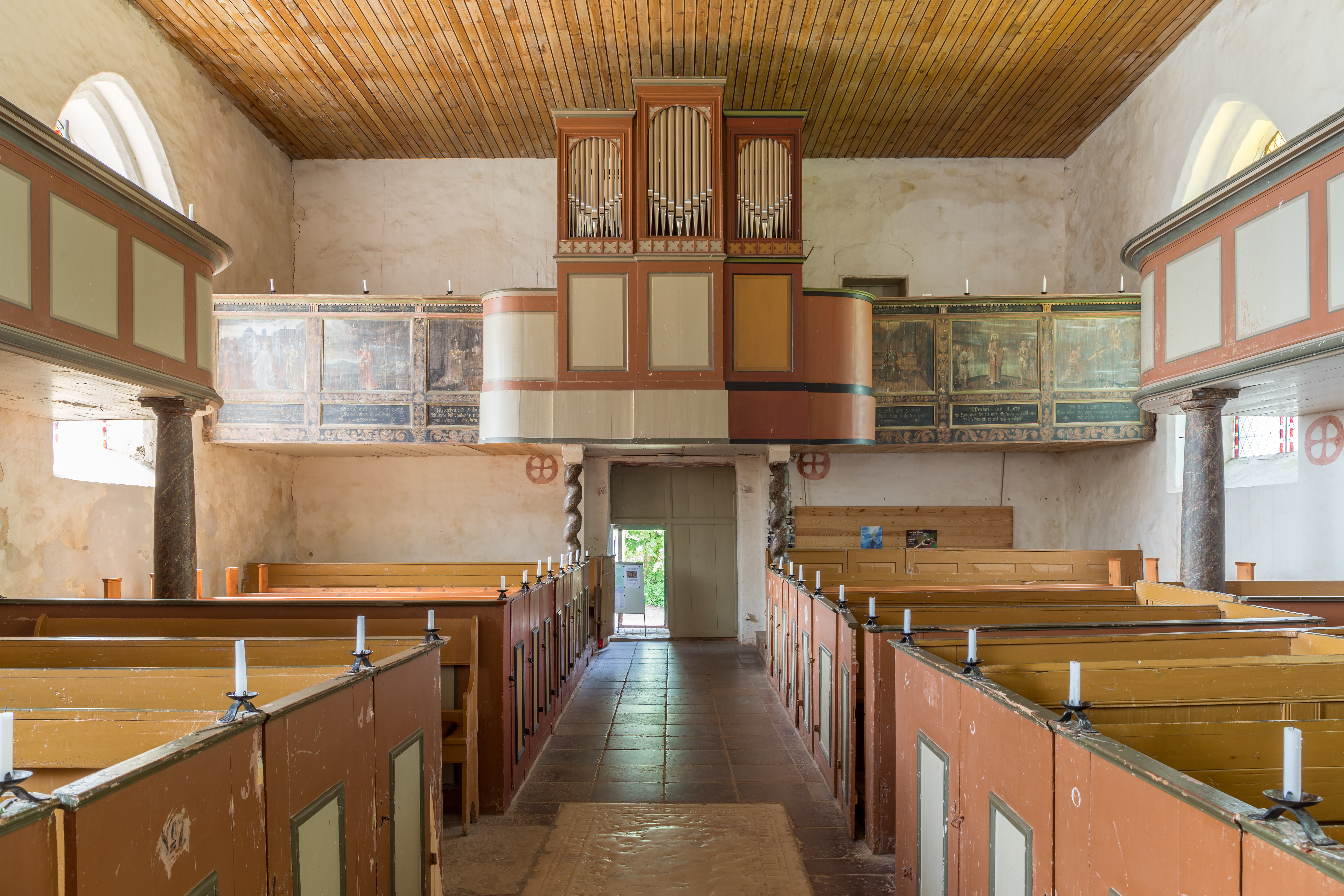 Interior of St. Pauli Church in Bobbin (Rügen). View from the sanctuary towards organ and main entrance.